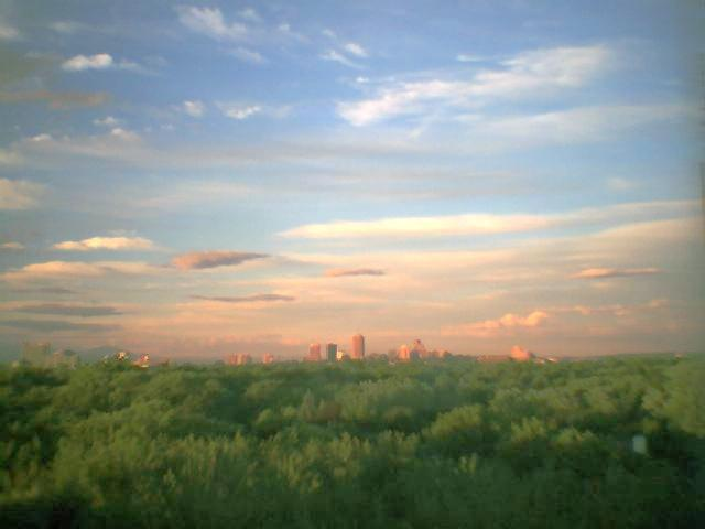 View of Quebec City from Parent building on Laval University campus.